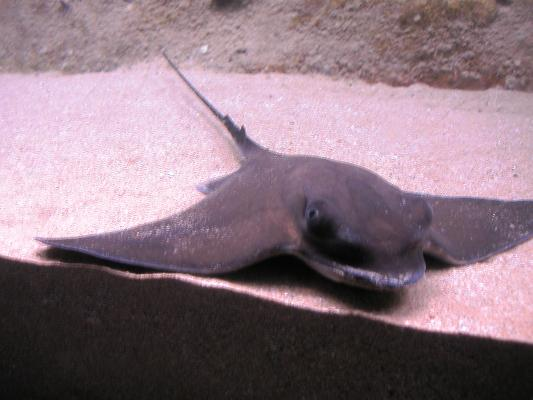 Common eagle ray (Myliobatis aquila) at the L'Aquarium Barcelona.